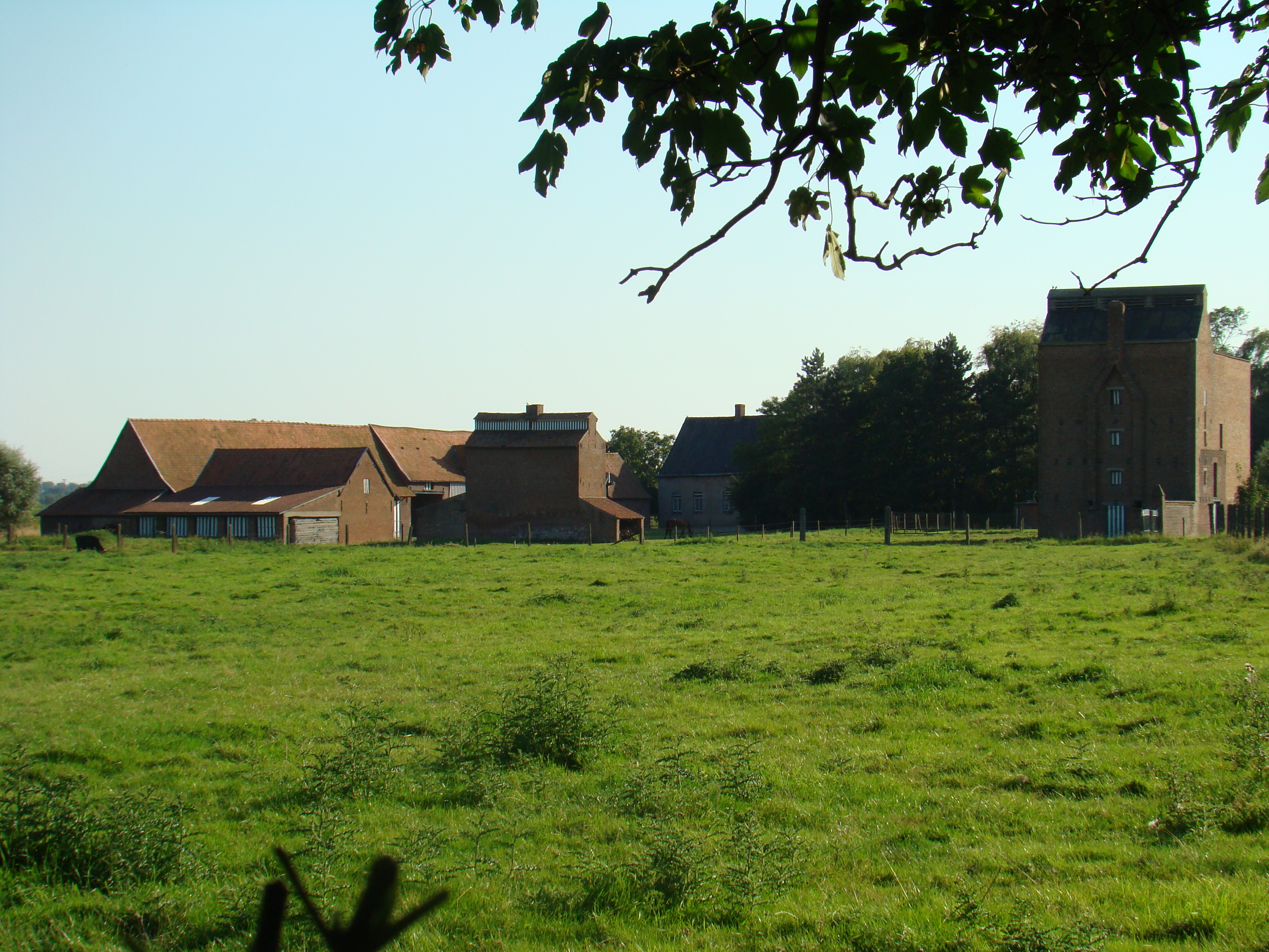 D'heerlijkhede Deefakker (ca 1600) Fiefdom Ingelmunster (West Flanders, Belgium)